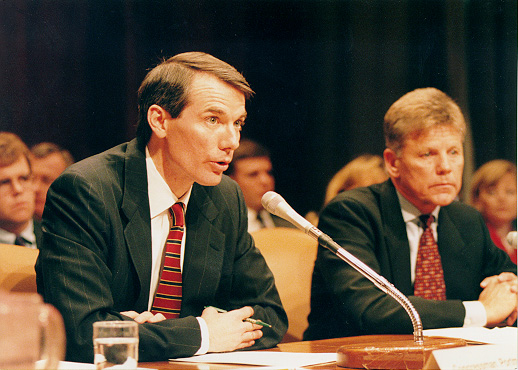 Representative Rob Portman with colleague Representative Gary Condit from California testifying before the Senate Budget Committee on the Mandates Information Act.